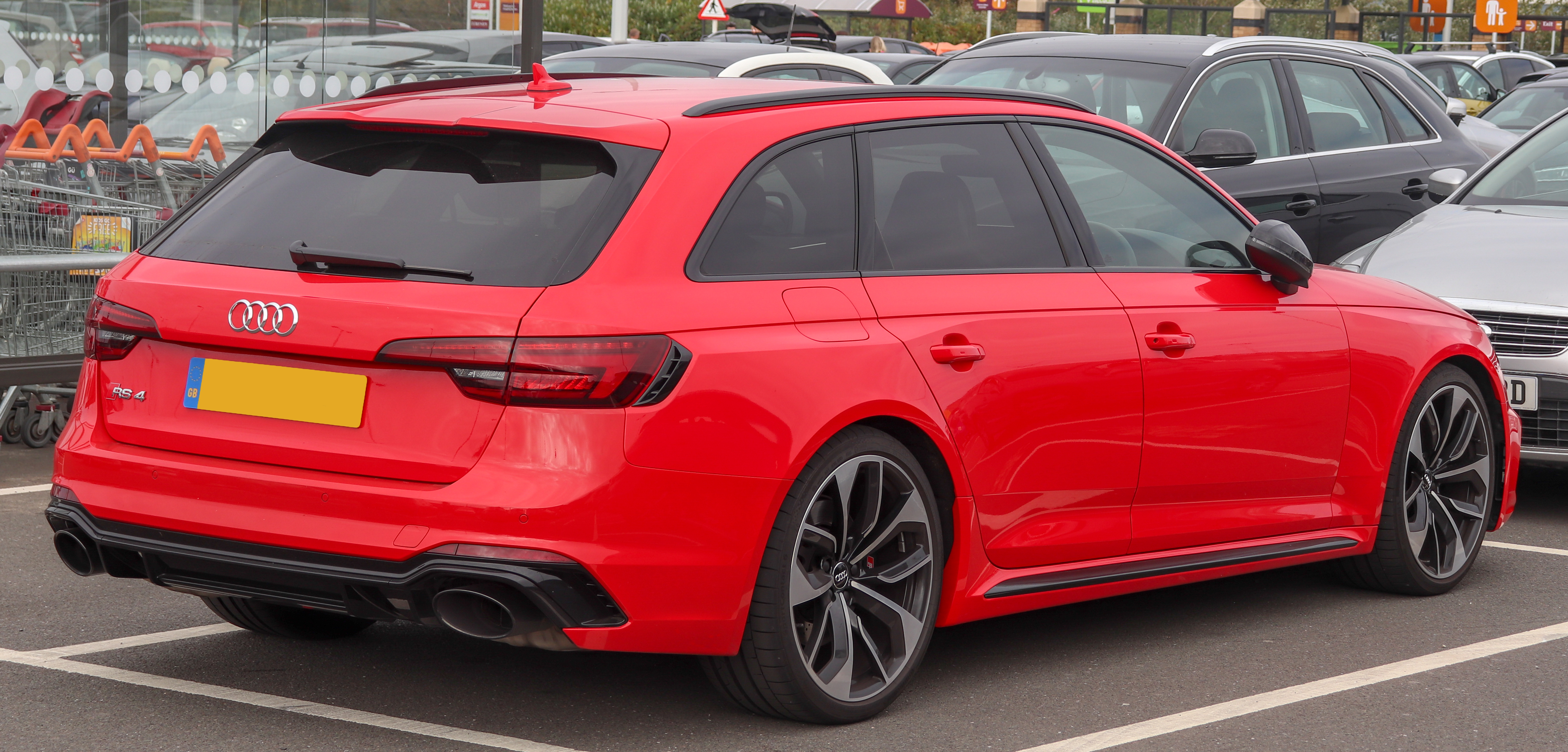 2018 Audi RS4 TFSi Quattro Automatic 2.9 Rear Taken in Leamington Spa